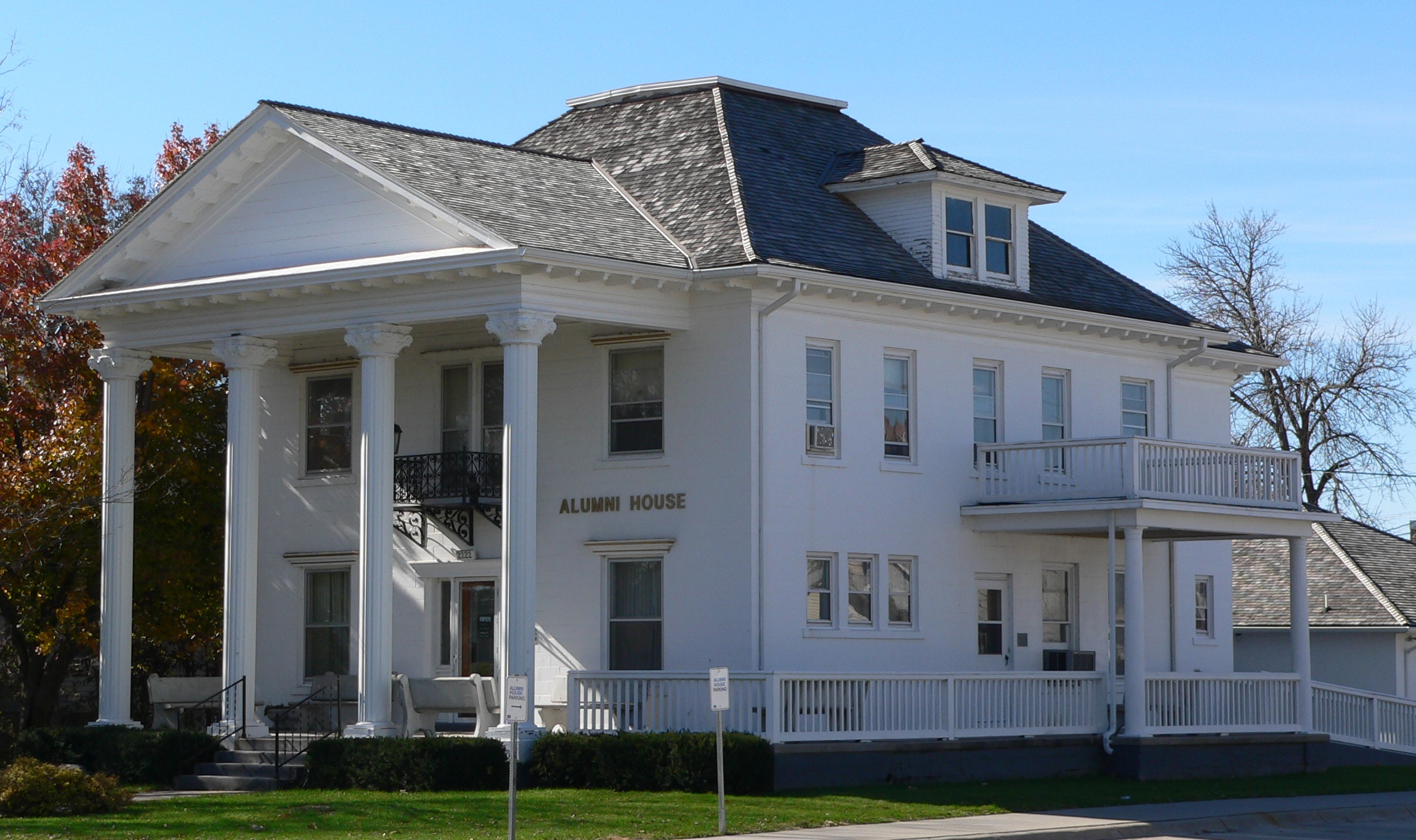 The Dr. A. O. Thomas House at 2222 9th Ave., Kearney, Nebraska, seen from the northeast. The building was designed in Classical Revival style by architect George A. Berlinghof, and was built in 1906. It now serves as the University of Nebraska at Kearney's Alumni House. The building is on the National Register of Historic Places.